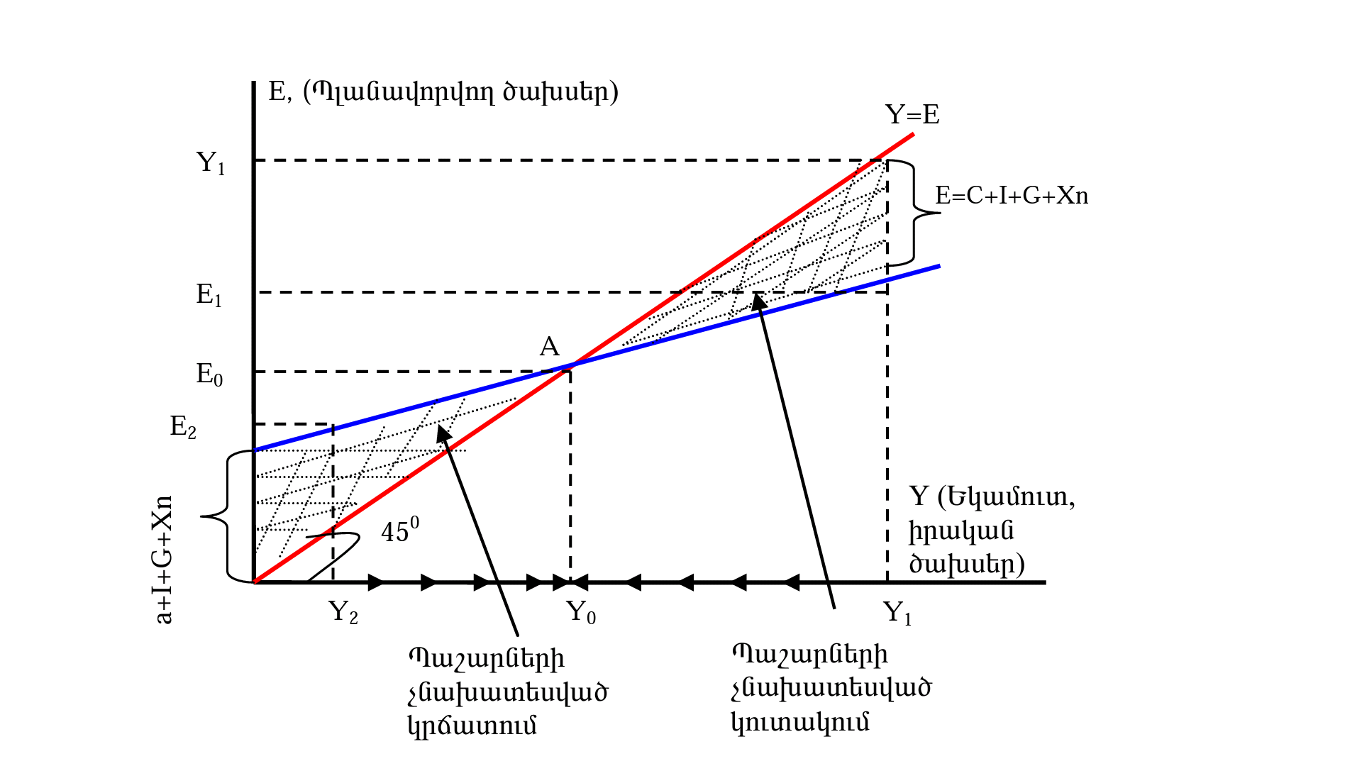 Keynes Cross